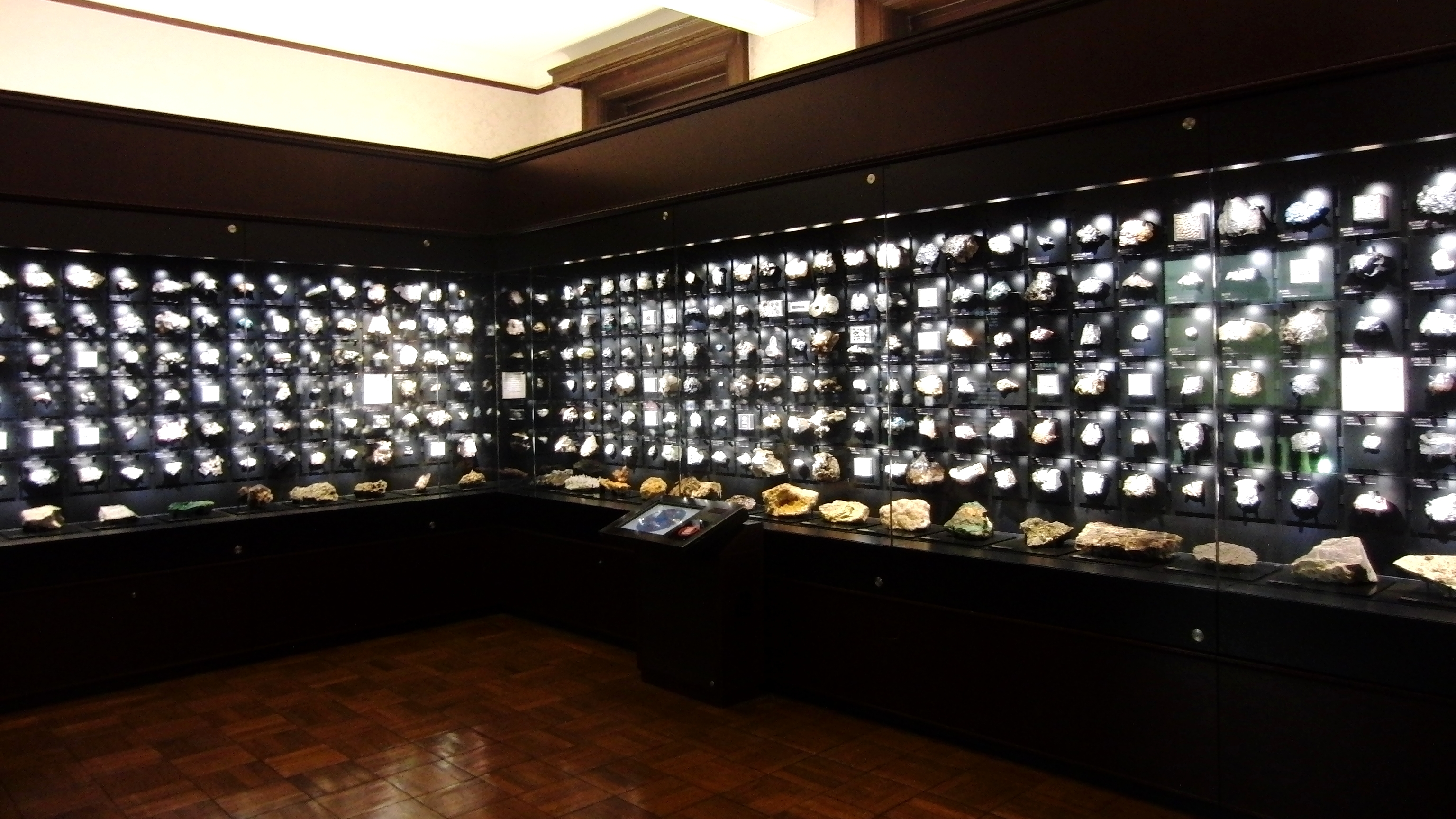 Mineral exhibition room of the National Museum of Nature and Science, Tokyo, Japan.